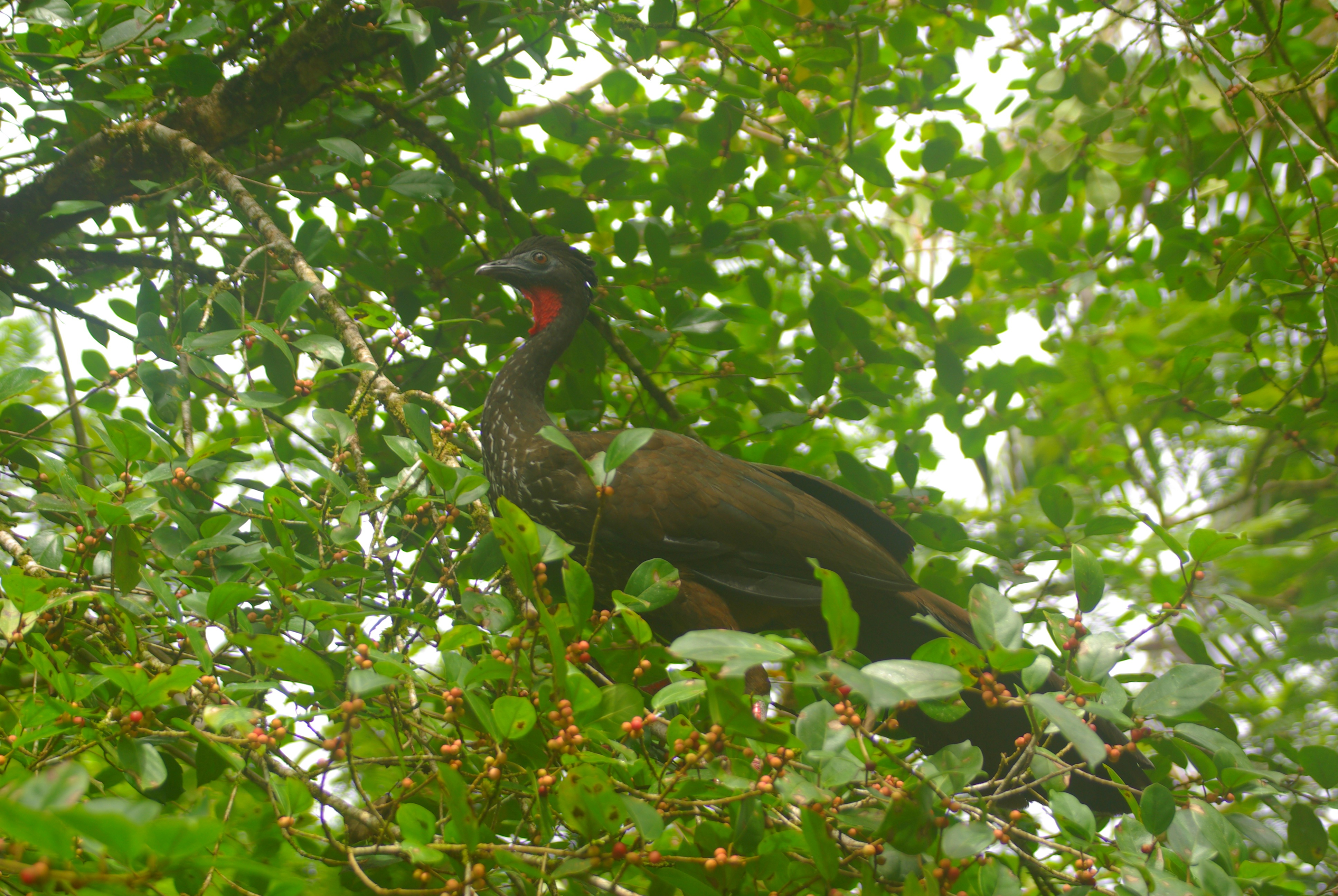 Crested Guan (Penelope purpurascens) at the biological station La Selva, Costa Rica